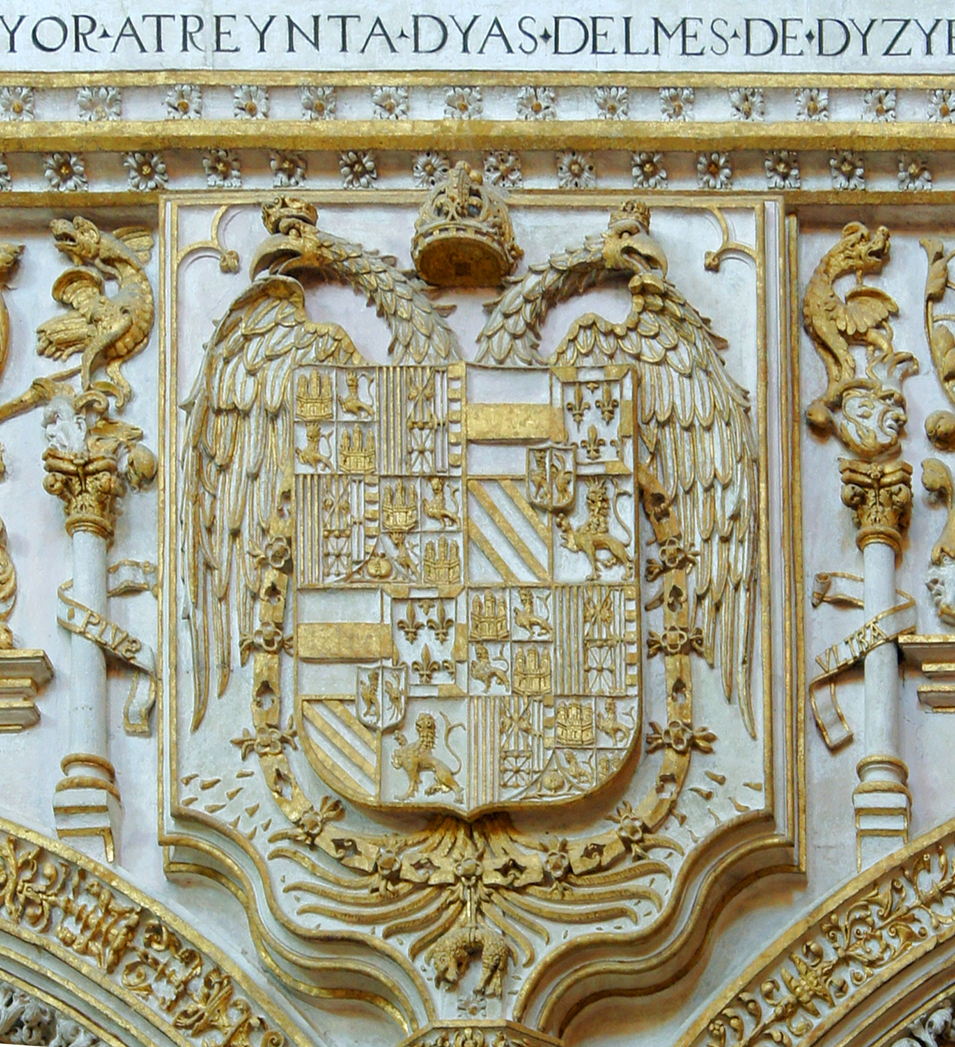 coat of Arms of King Charles 1st, King of Spain, Emperor Charles V of the Holy Roman German Empire, golden stucco, beginning of the XVIth century, Choir of the Cathedral of CORDOBA, Spain